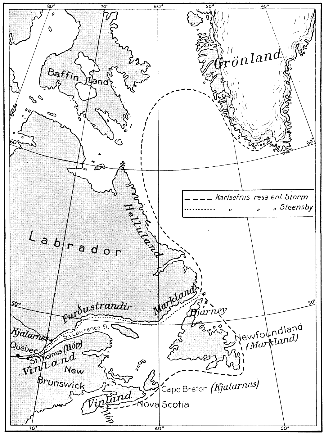 Map of Vinland